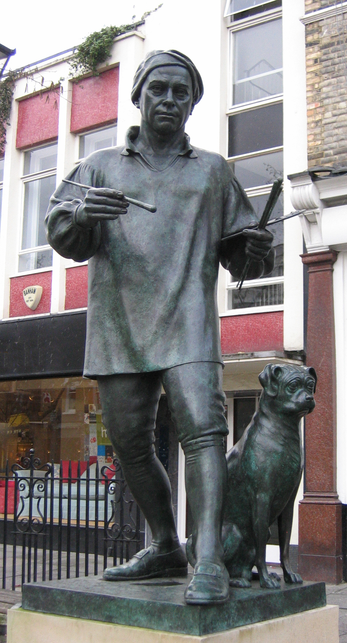 Statue of William Hogarth by Jim Mathieson (1931-2003). The plinth is inscribed "William Hogarth, Chiswick resident and father of English painting" and "Hogarth 1697 - 1764". It stands in Chiswick High Road opposite Turnham Green Terrace. This is in west London, U.K. Photo taken by me, Patche99z, 28 February 2007, especially for Wikipedia. Photograph taken in a public location in the UK of a building on permanent public display, and exempt from copyright under Section 62 of the Copyright Designs & Patents Act 1988 ("it is not an infringement of copyright to film, photograph, broadcast or make a graphic image of a building, sculpture, models for buildings or work of artistic craftsmanship if that work is permanently situated in a public place or in premises open to the public").